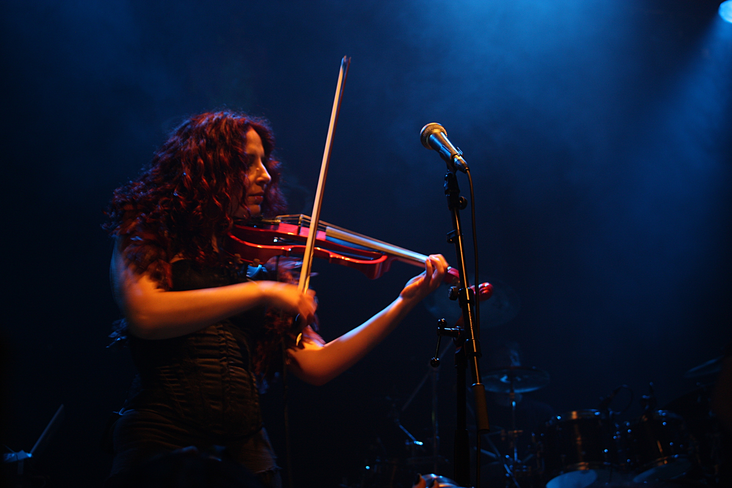 Marcela Bovio of Stream of Passion on the violin